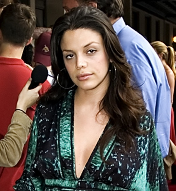 Actress Vanessa Ferlito at the premiere of Grindhouse, Austin, Texas (2007).